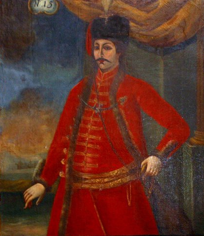 Christoph II. Batthyany